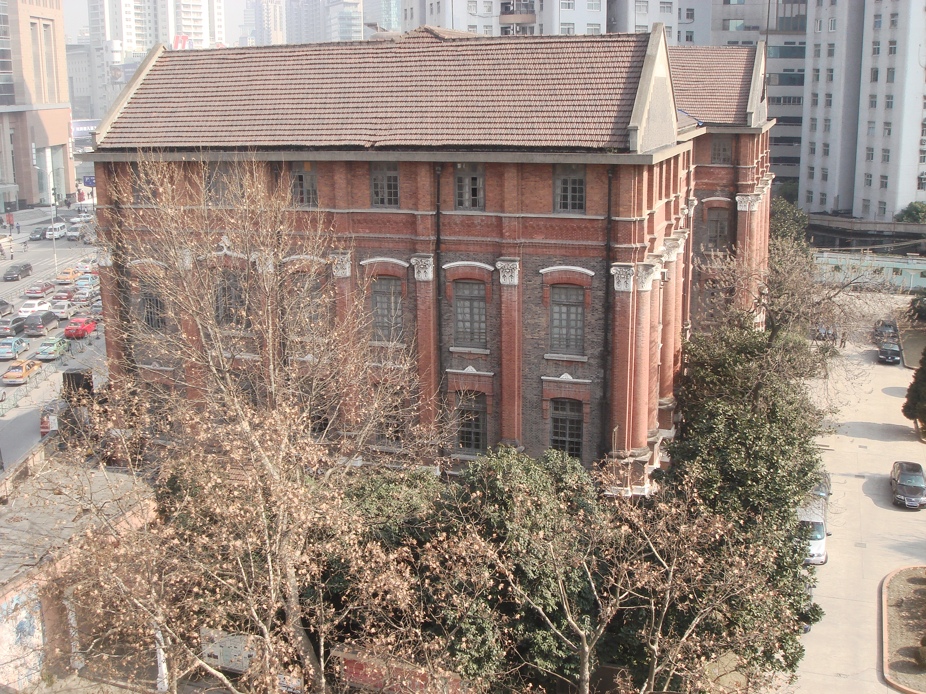 It was build in 1917, at Xuhui Middle/High School, Xujiahui, Shanghai.